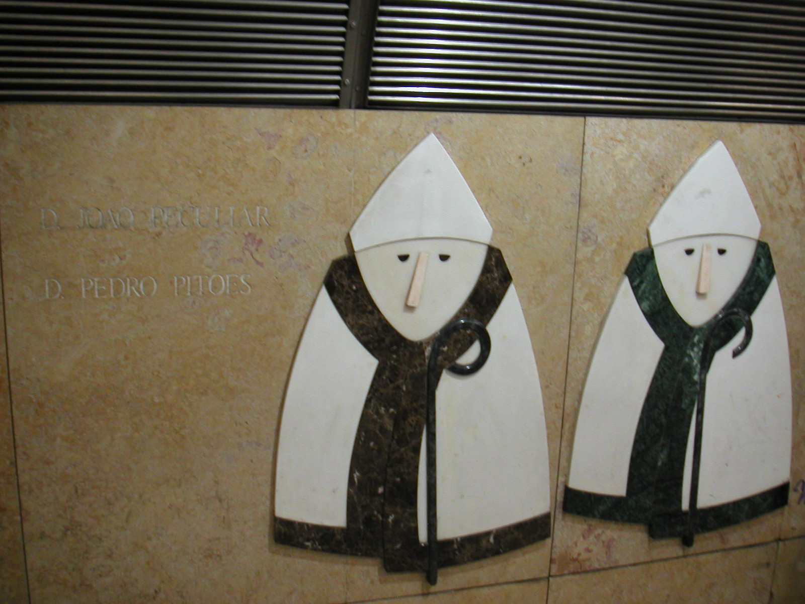 Mosaics of bishobs from the Lisbon public transit system